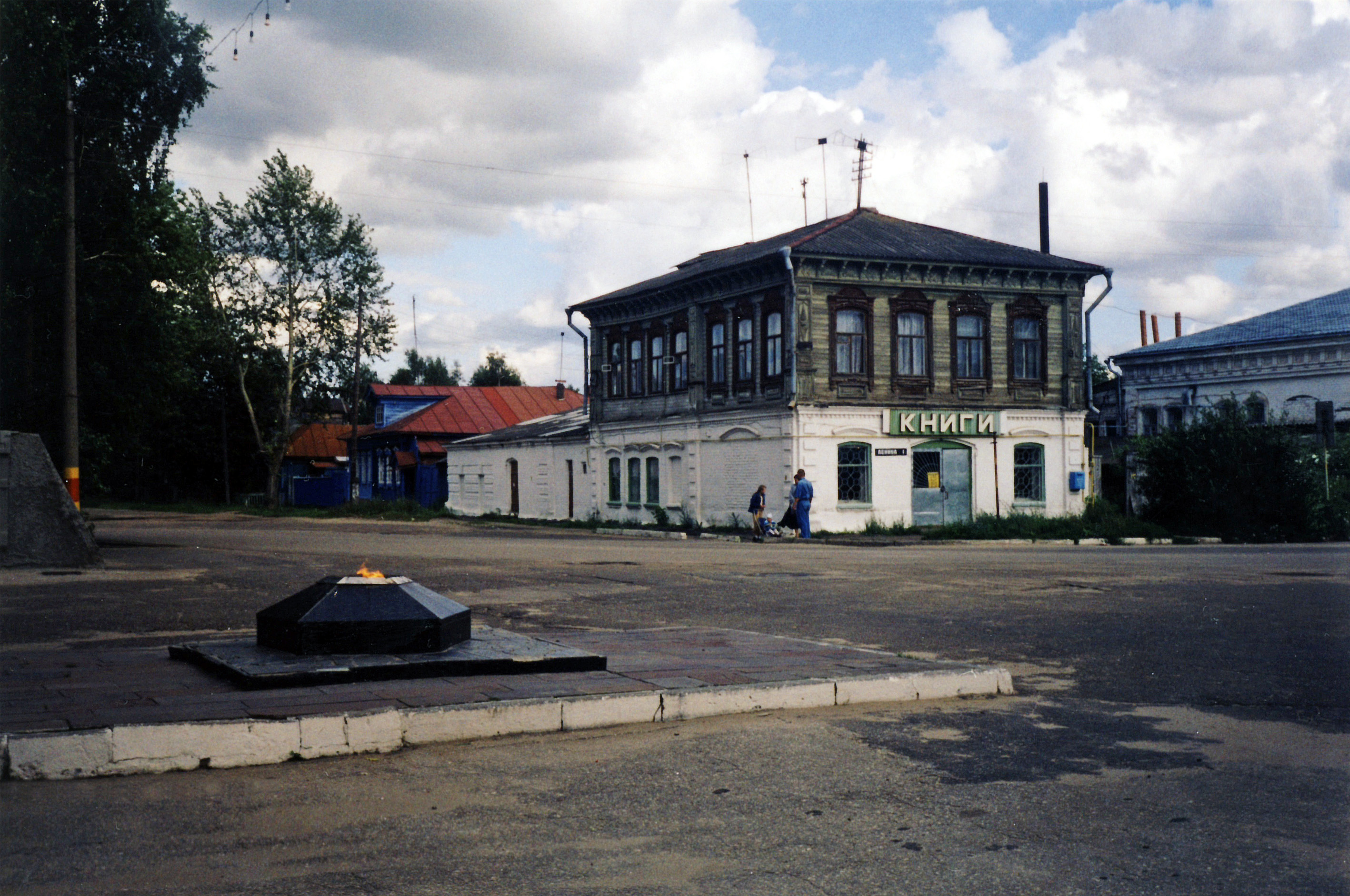 Lyskovo, Nizhny Novgorod oblast, Russia. Near Eternal flame at corner of Lenin Street and First May Day Lane.